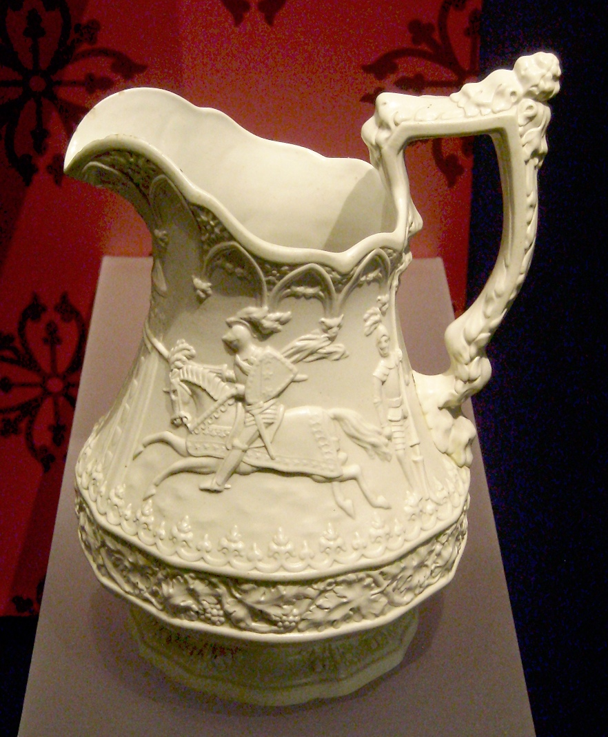 A jug, made some time after 1840, by William Ridgway, Son and Co., as a souvenir to commemorate the Eglinton Tournament. On display at The Higgins museum and gallery, Bedford.